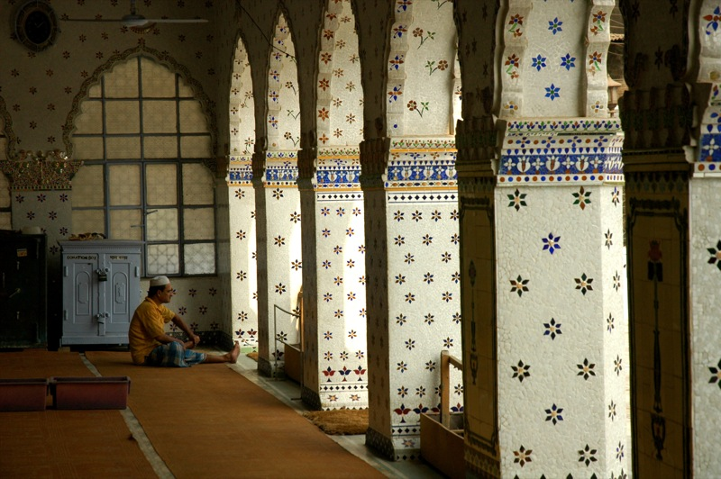 Star Mosque, locally known as Tara Masjid (Bangla: তারা মসজিদ), is a mosque located in Dhaka, Bangladesh. It is situated at the Armanitola area of the old part of the city.